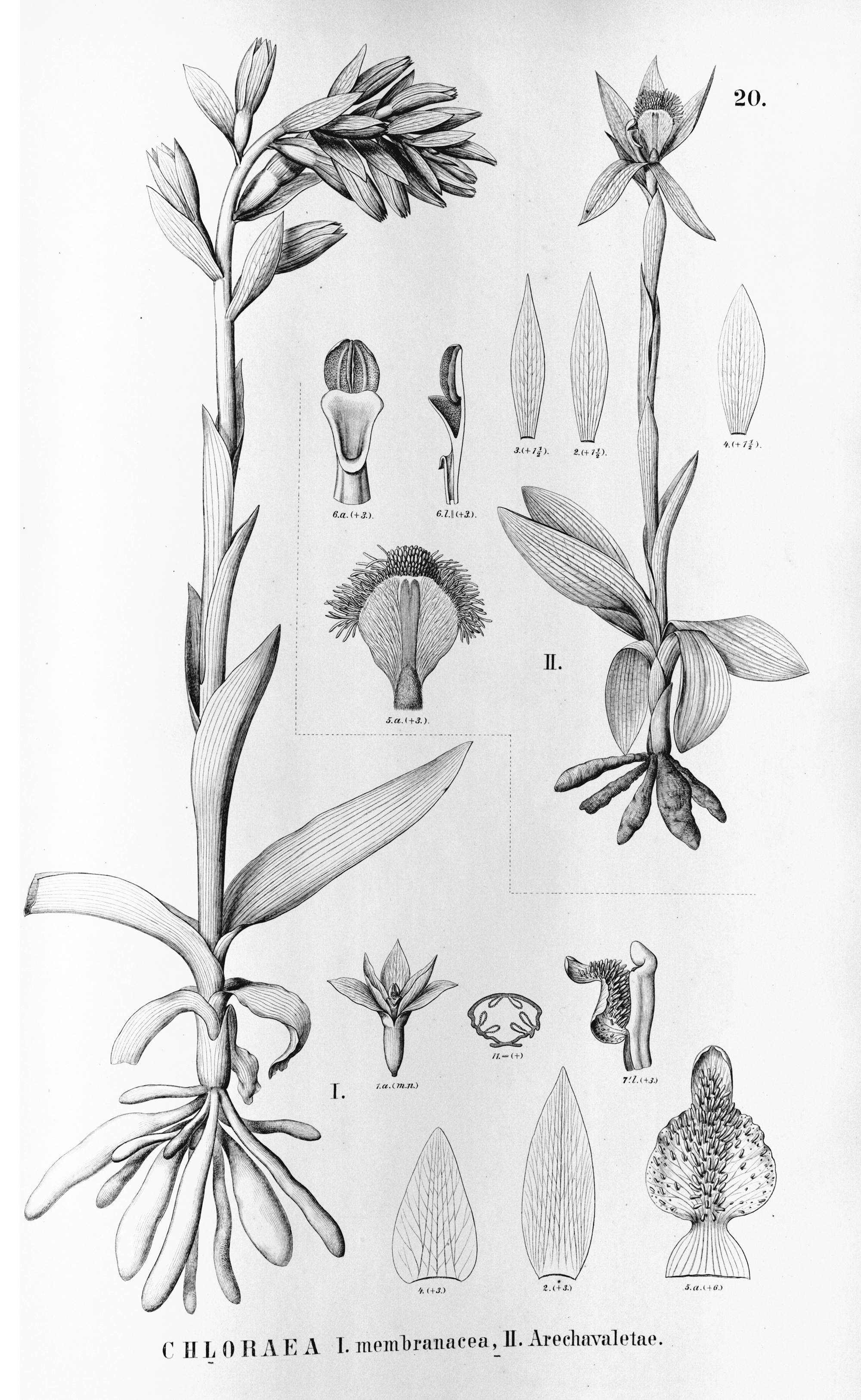 Illustration of: I. Chloraea membranacea II. Bipinnula penicillata (as syn. Chloraea arechavaletae)